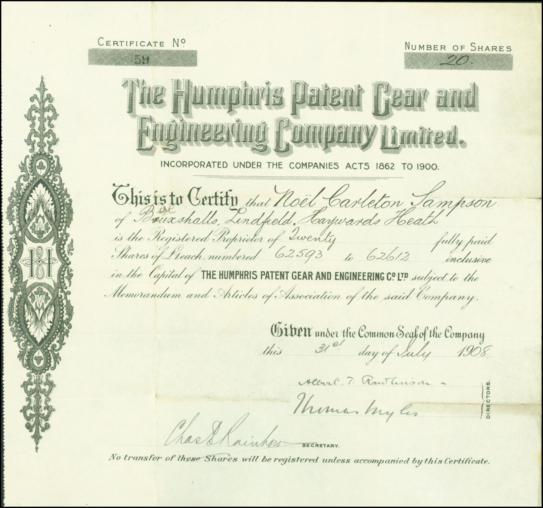 Share of the Humphris Patent Gear and Engineering Company Ltd., issued 31. July 1908